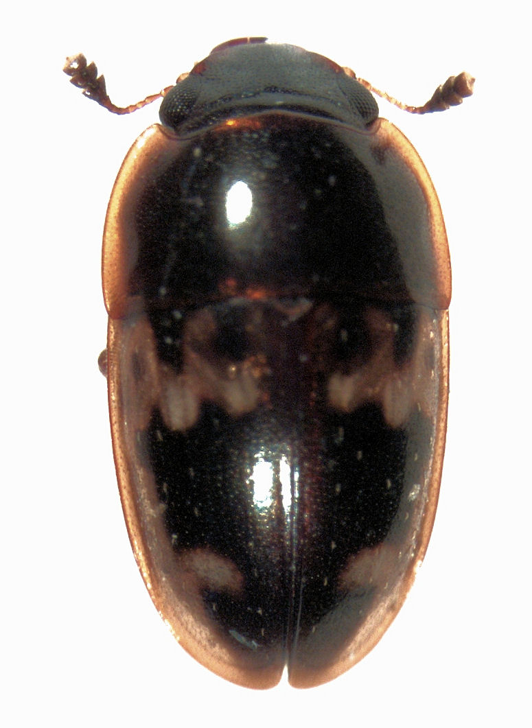 adult Cryptarcha nitidissima